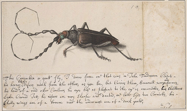 "Goatte fly" (Capricorn beetle), Cerambycidae, ?Cerambyx